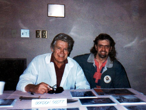 Actor Gordon Scott poses with a fan at a film festival in 1995.